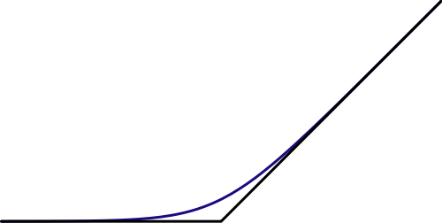 Log-log plot of x + 1 and max (x, 1) from x = 0.001 to 1000